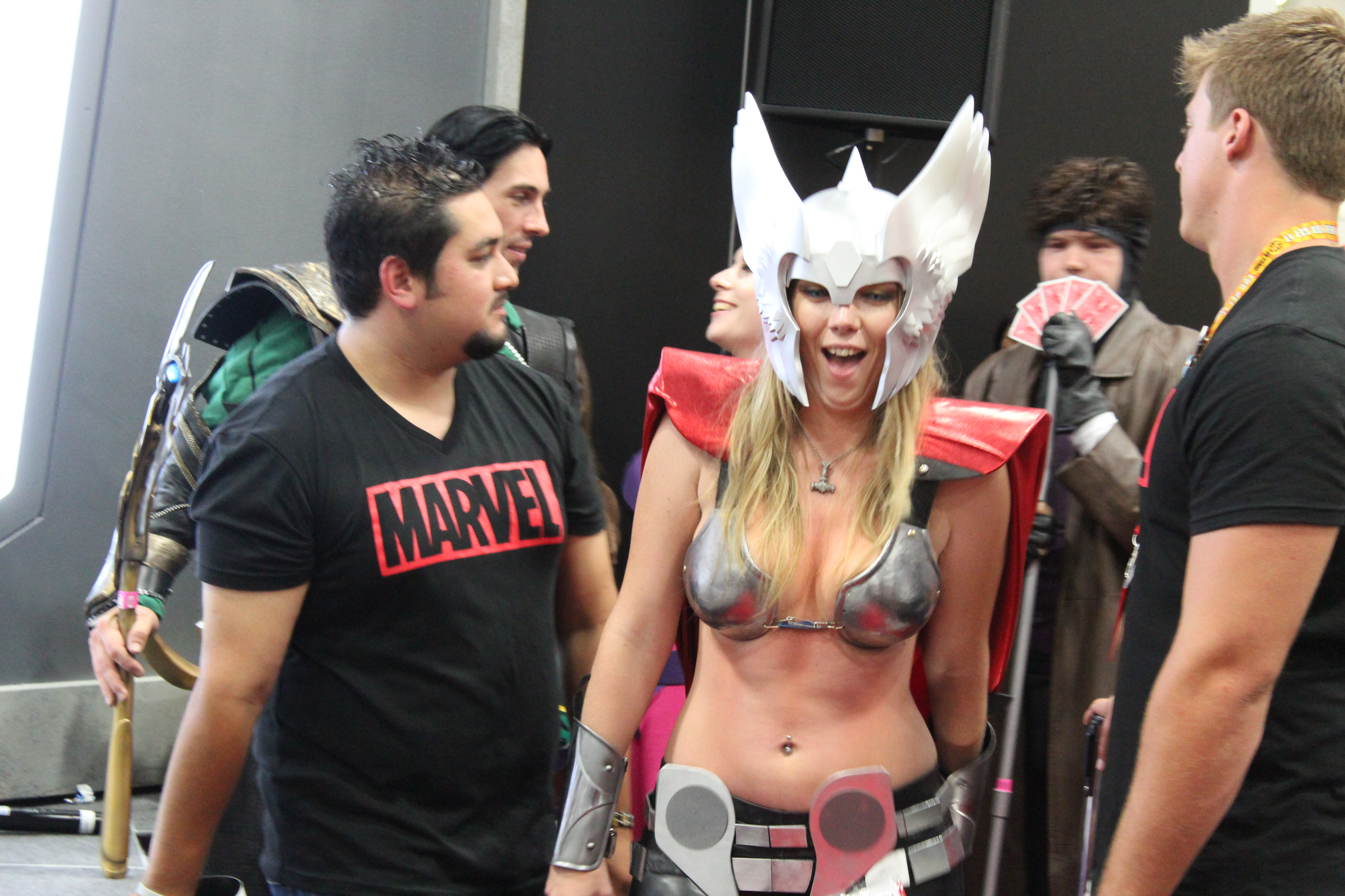 Cosplay of a female Thor at San Diego Comic-Con (SDCC 2012).